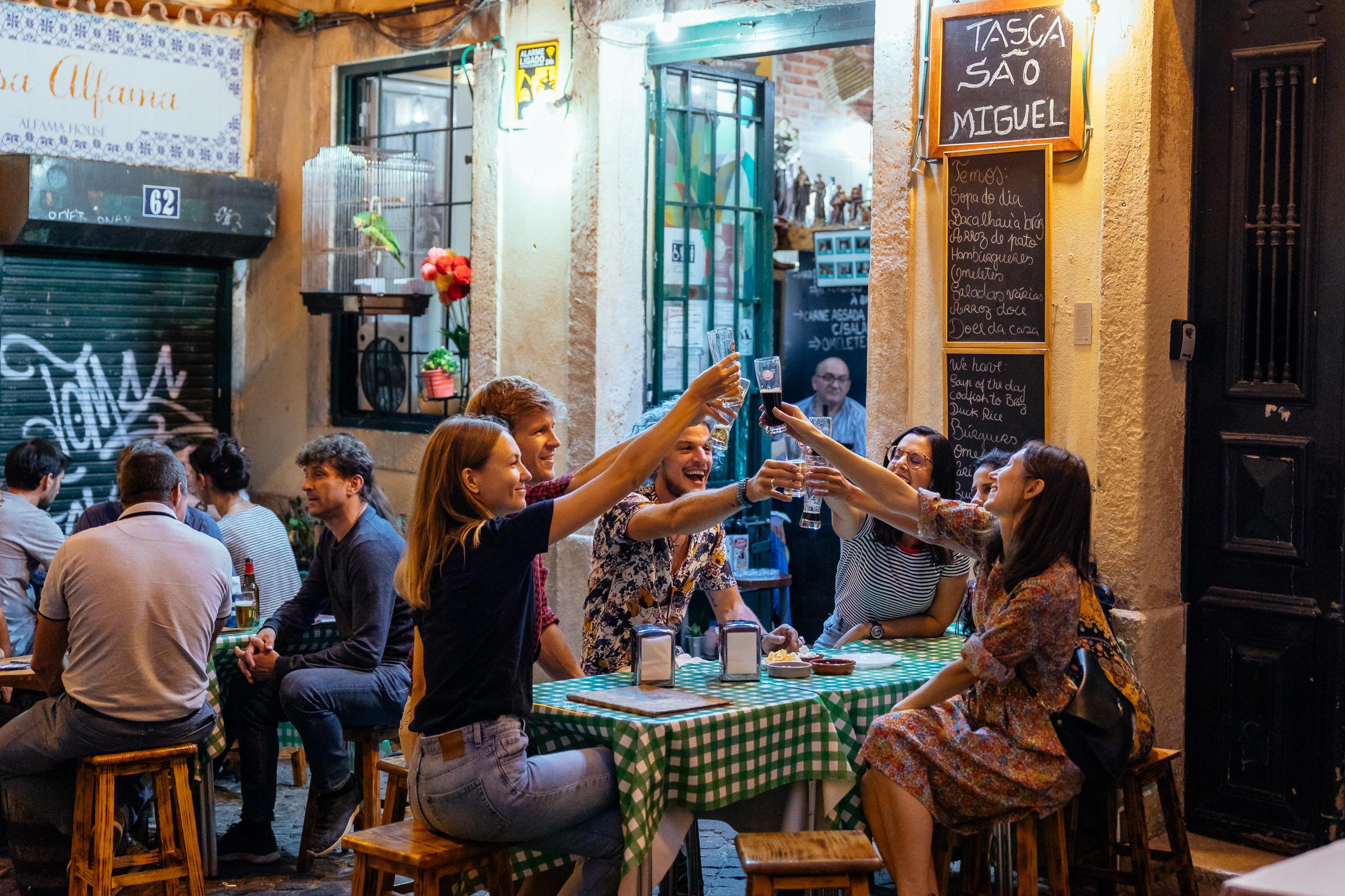 Group of people at a bar in Lisbon Image from a Withlocals tour